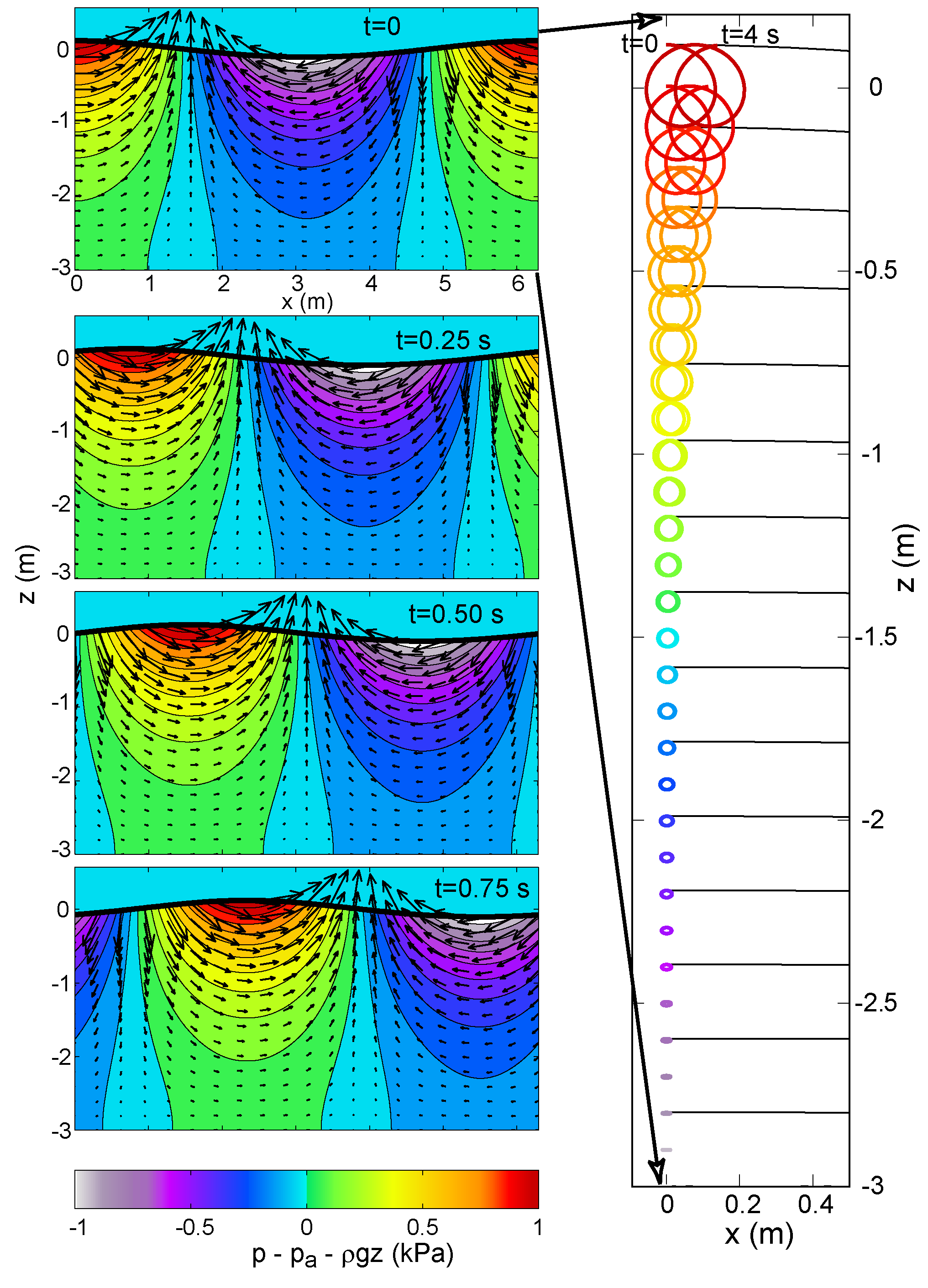 Kinematics, pressure variations and drift under a 2 s Airy wave in 3m depth